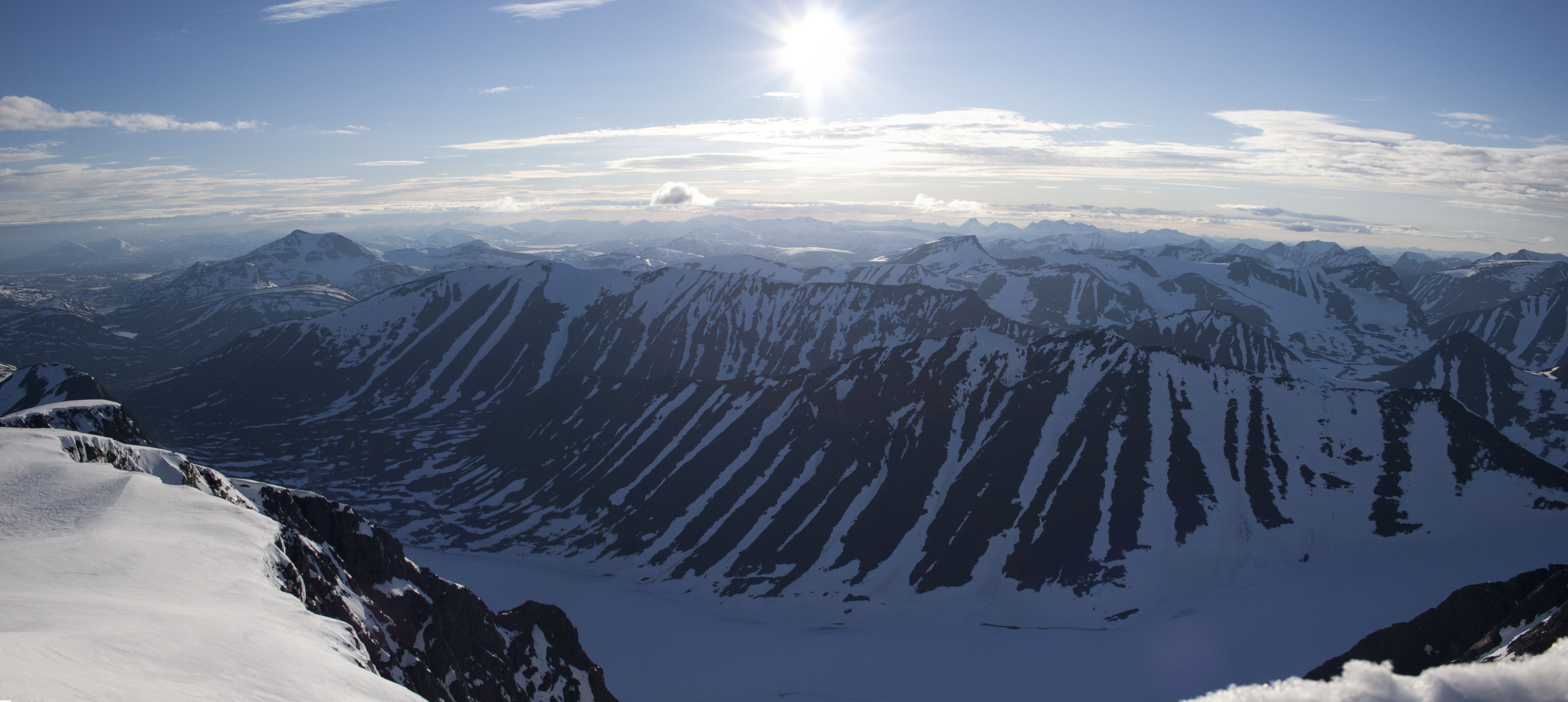 View from the southern and highest summit of Kebnekaise (2106 m). The picture shows Drakryggen (1821 m), Duolbanjunecohkka (1792 m) and Sealgga (1865 m).